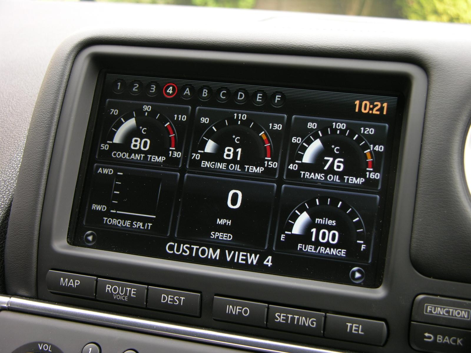 2009 Nissan GT-R Black Edition